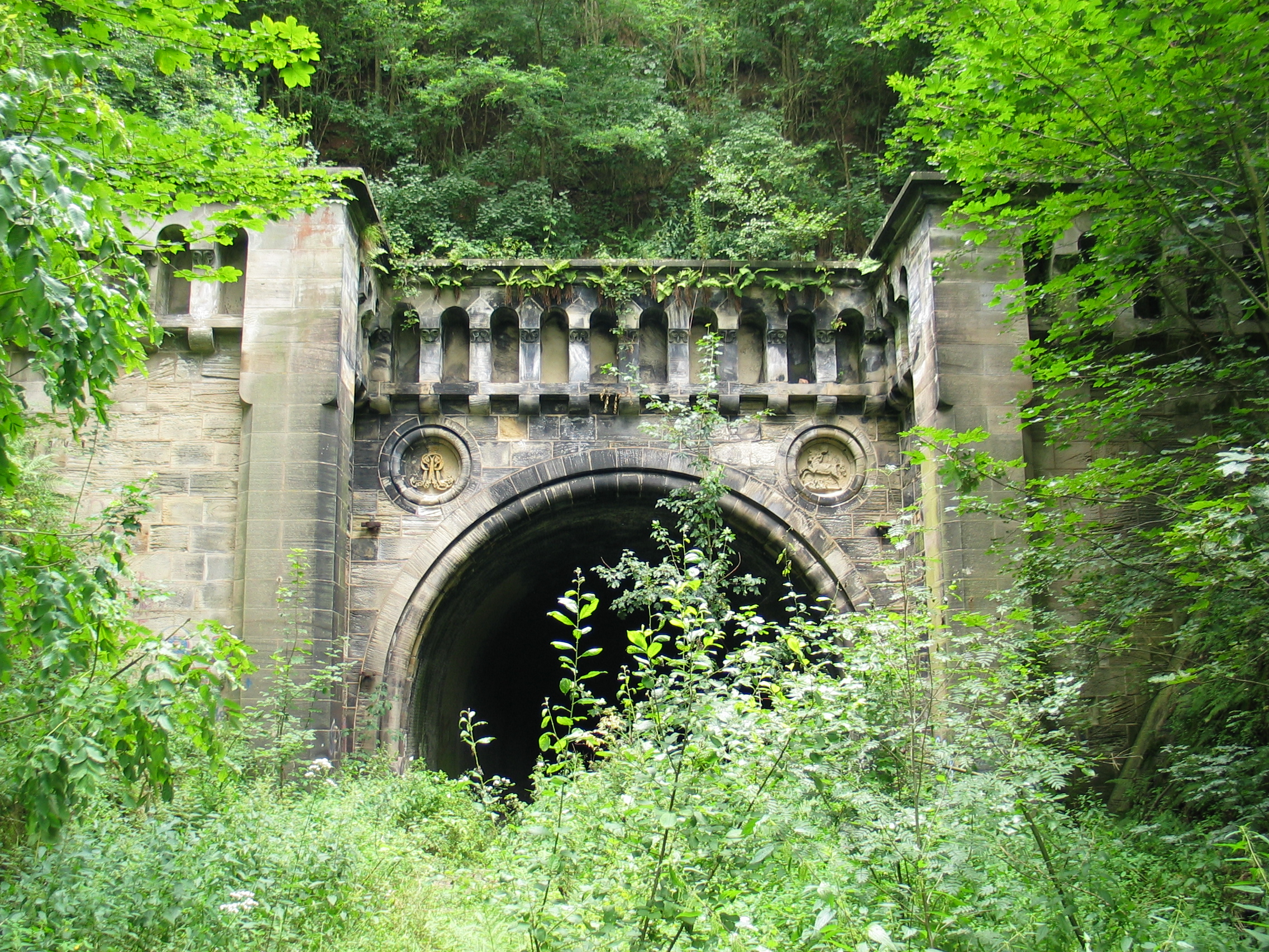 Abandoned railtunnel near Volkmarshausen, Germany.